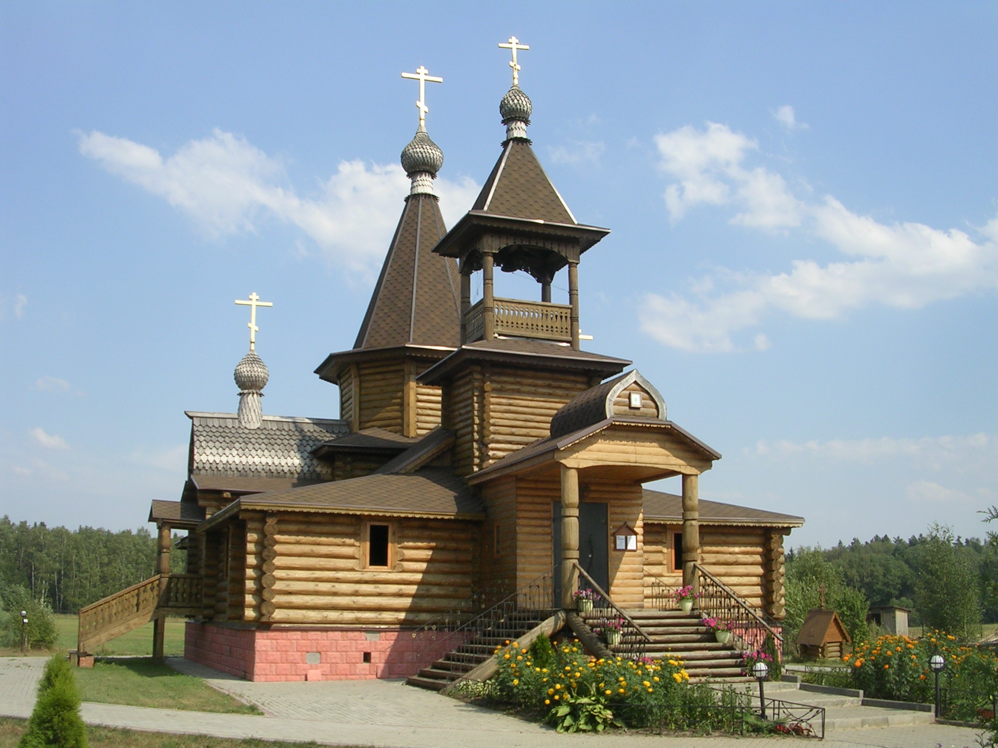 Theotokos of cereals temple in Molzino near Noginsk, Voscow region. Photo of summer 2010.